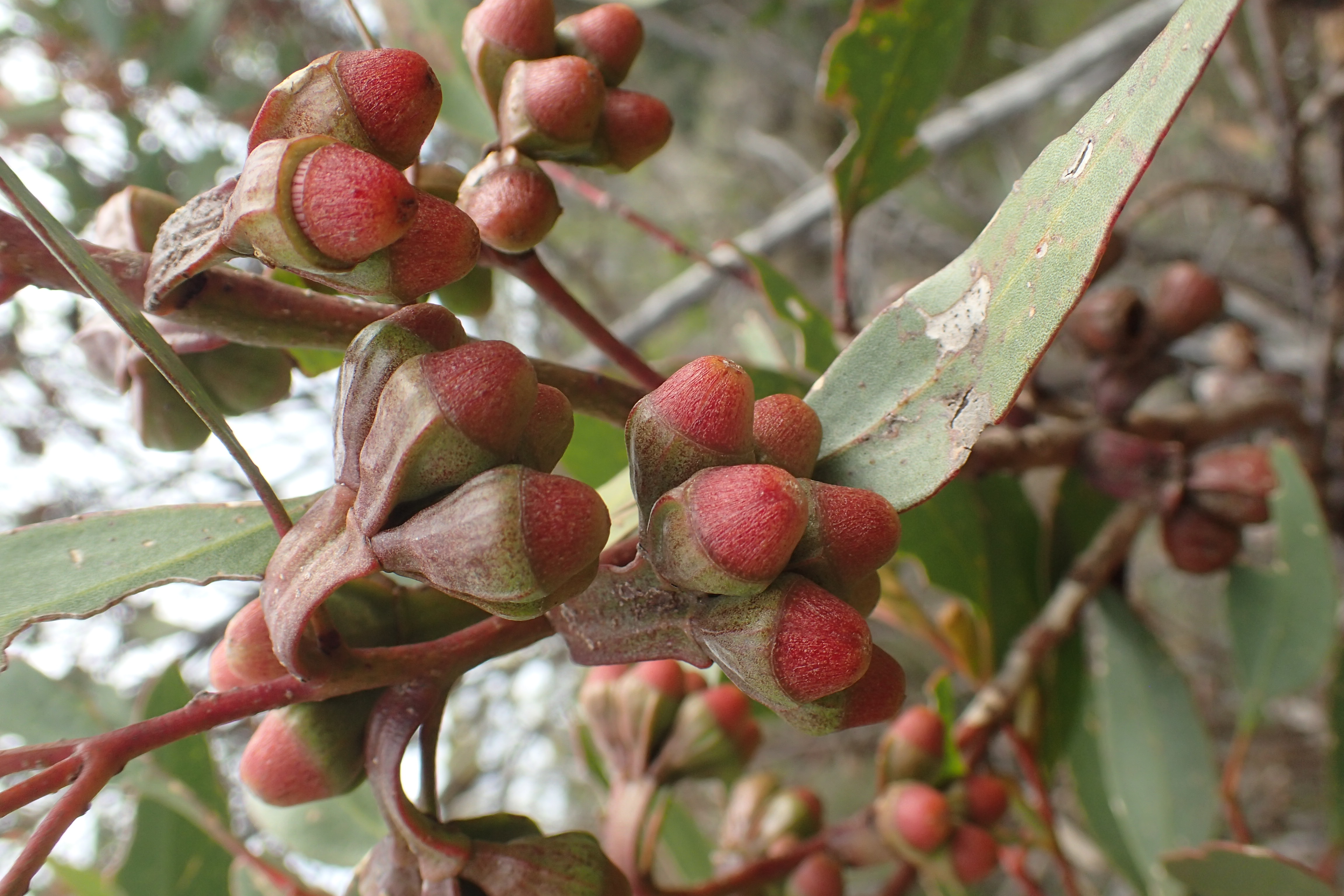 Flower buds of Eucalyptus stoatei in Helms Arboretum, near Esperance, W.A.